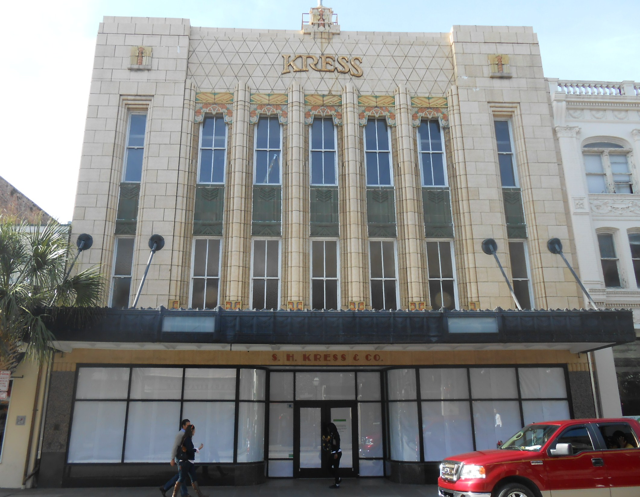 281 King St., Charleston, South Carolina